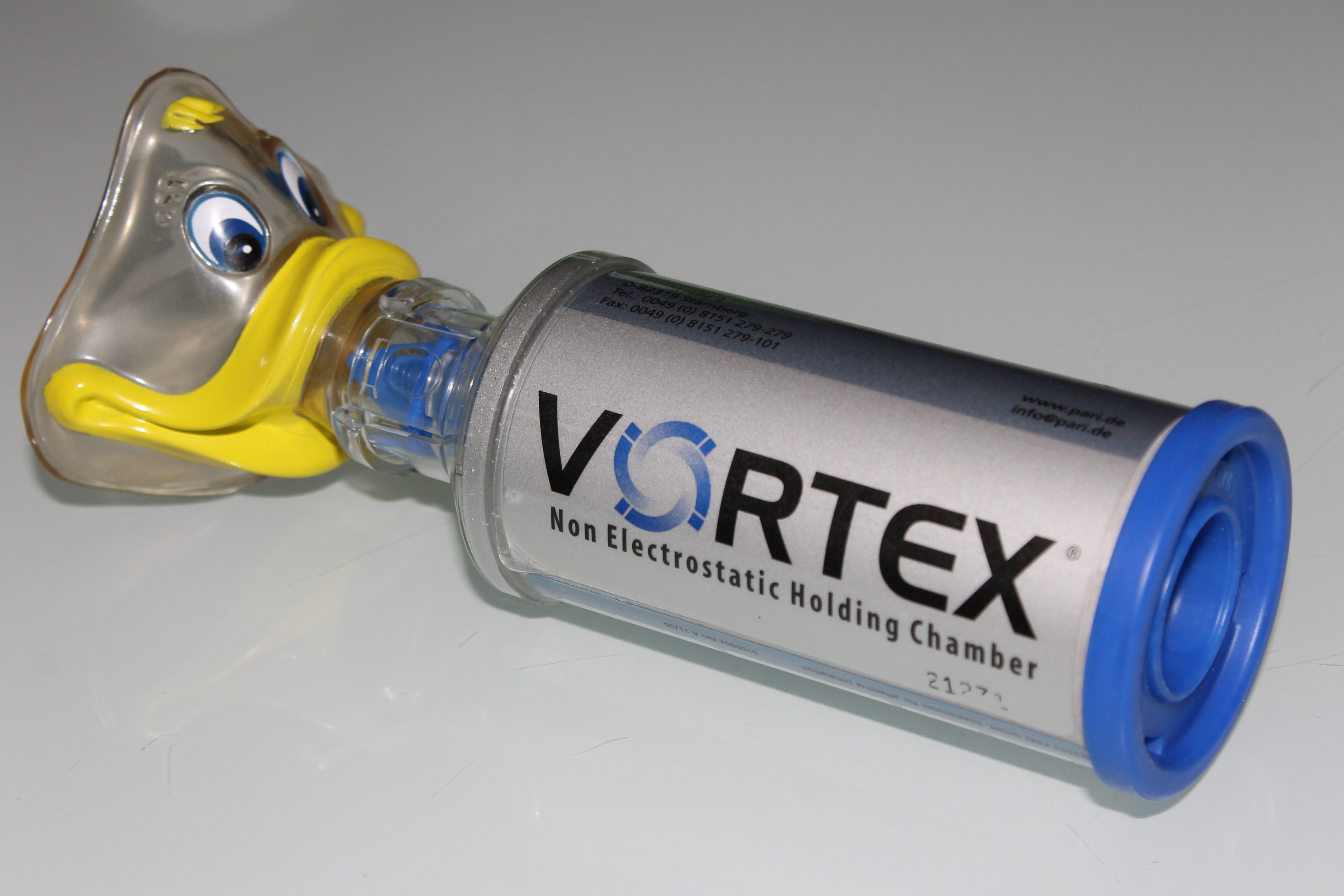 PARI Vortex Holding Chamber